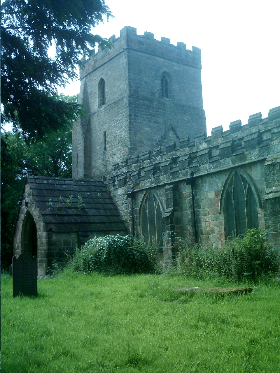 St Chads Church in Church Wilne, South Derbyshire